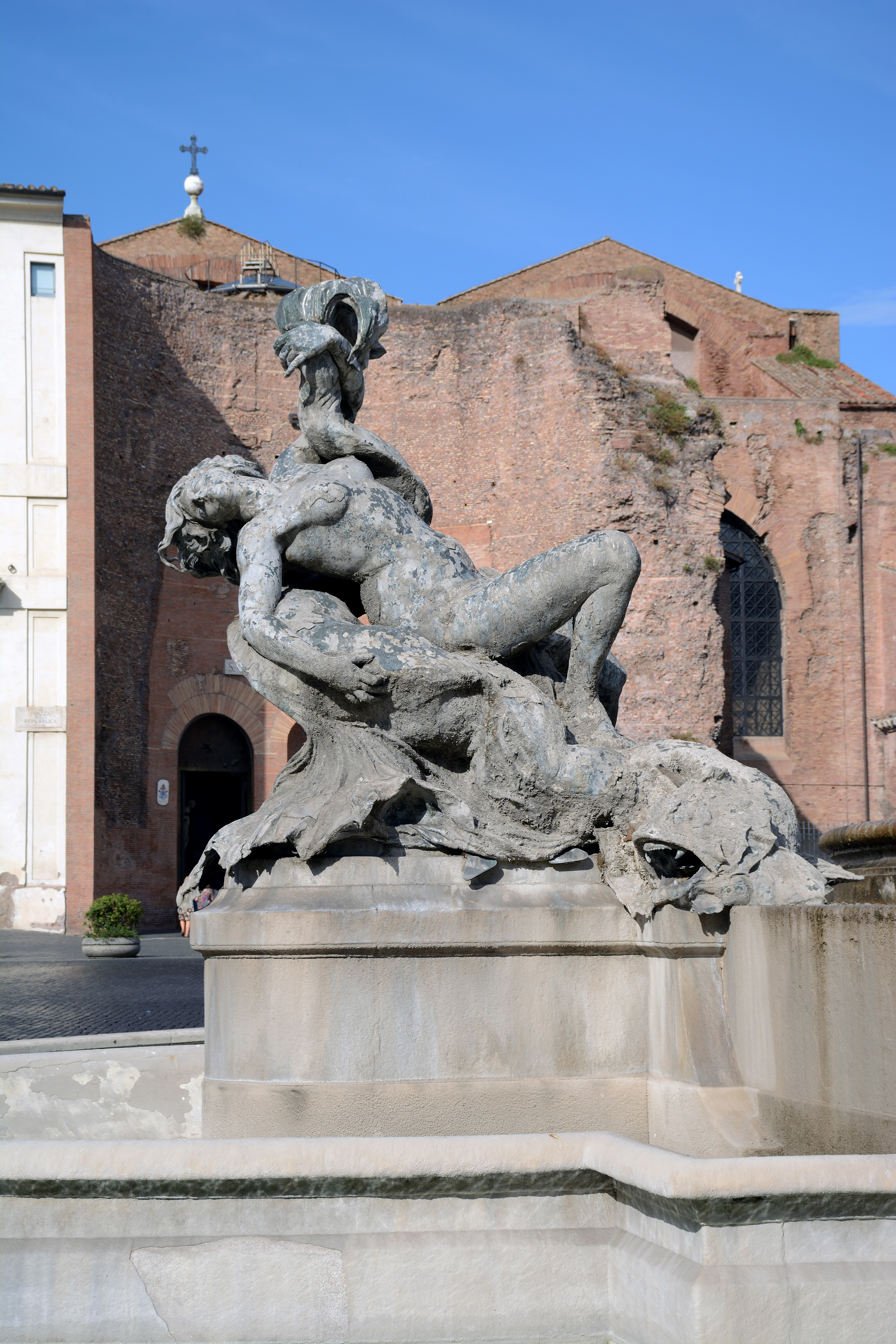 Nymph of the rivers in Fountain of the Naiads - lateral view